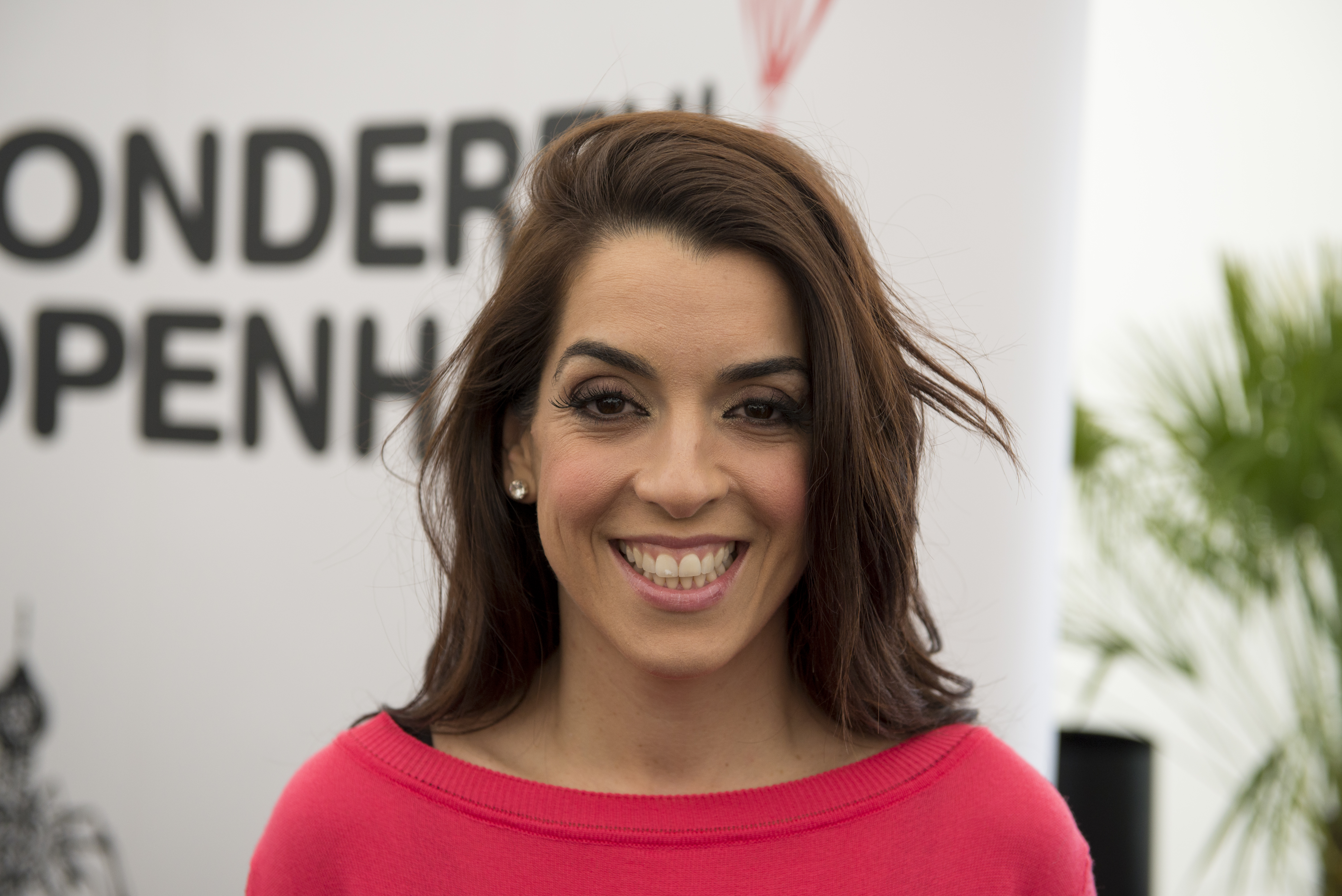 Ruth Lorenzo at a Meet & Greet during the Eurovision Song Contest 2014 Copenhagen. (Help translate this text)